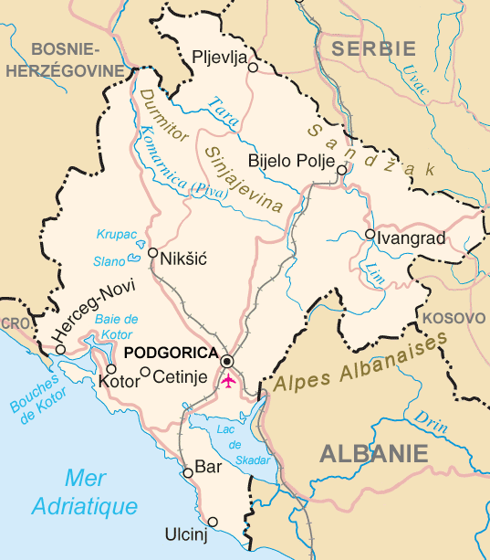 Map in French of Montenegro